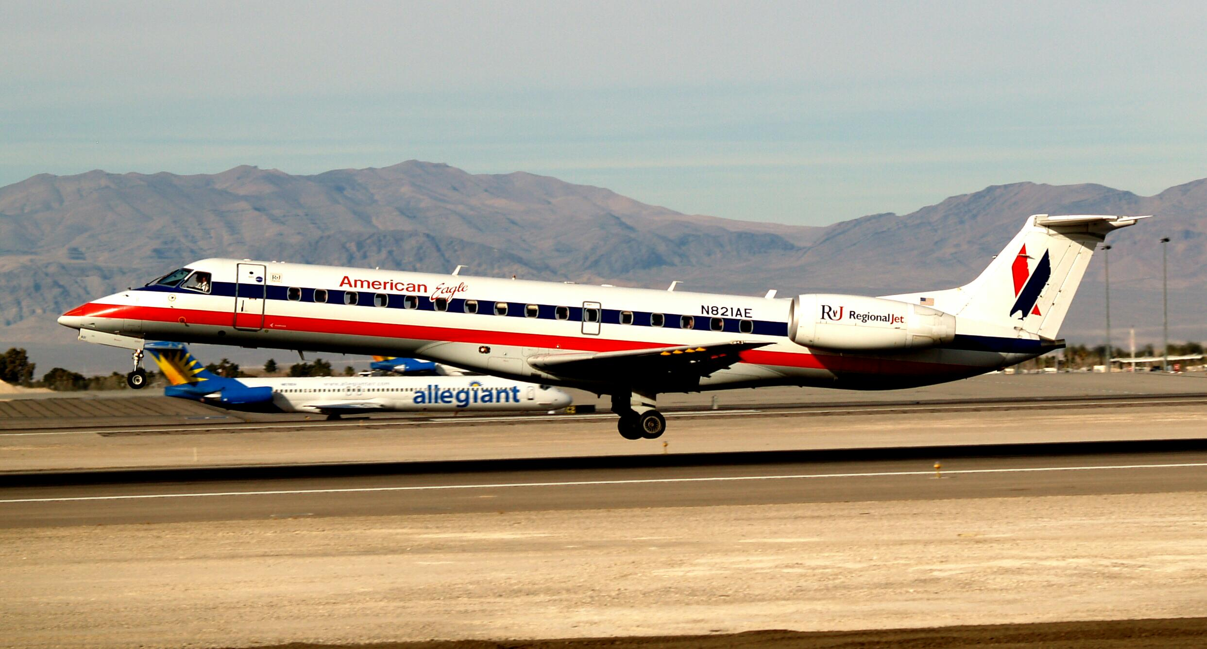 American Eagle Airlines Embraer ERJ-145LR